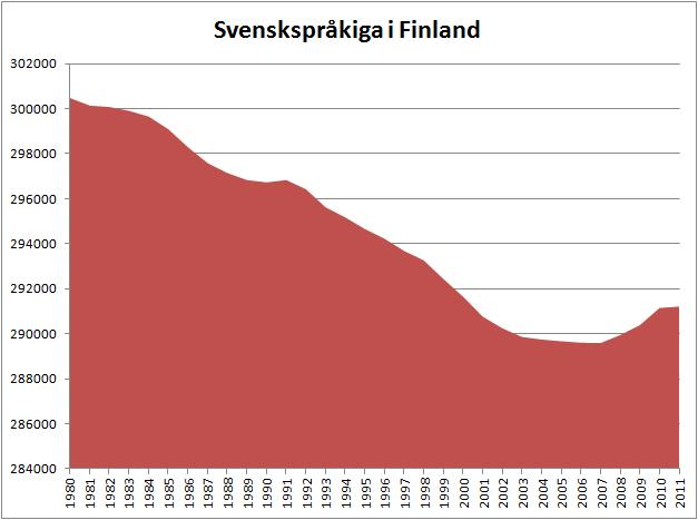 Swedish speaking residents in Finland, 1980-2011. Source: Statistics Finland